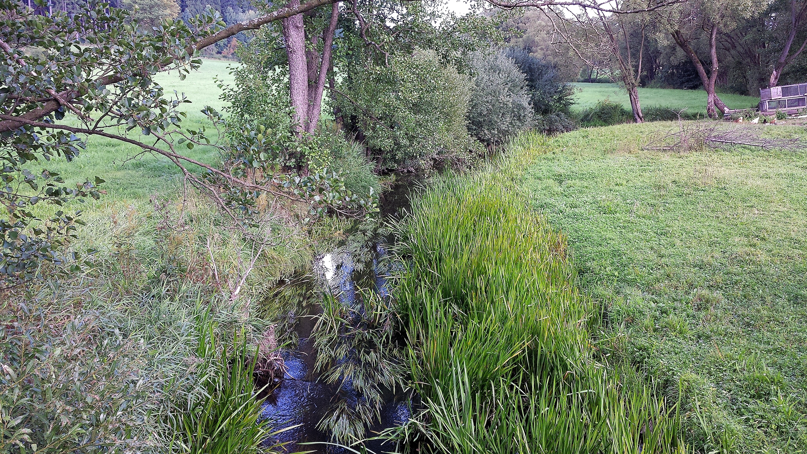 Schwarzach/Nemanický potok in Waldmünchen, part Höll (Bavaria, Germany).